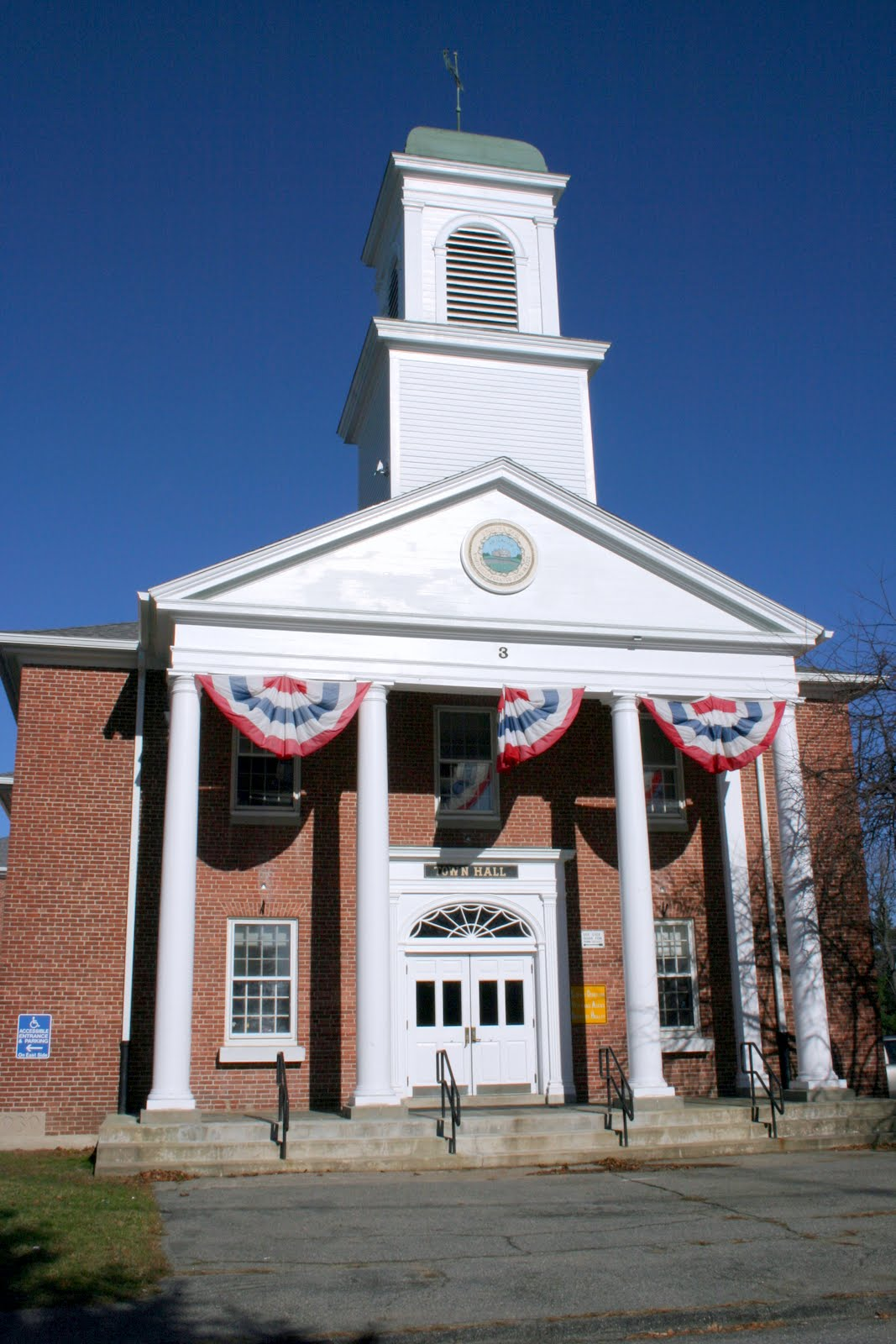 Leicester Town Hall